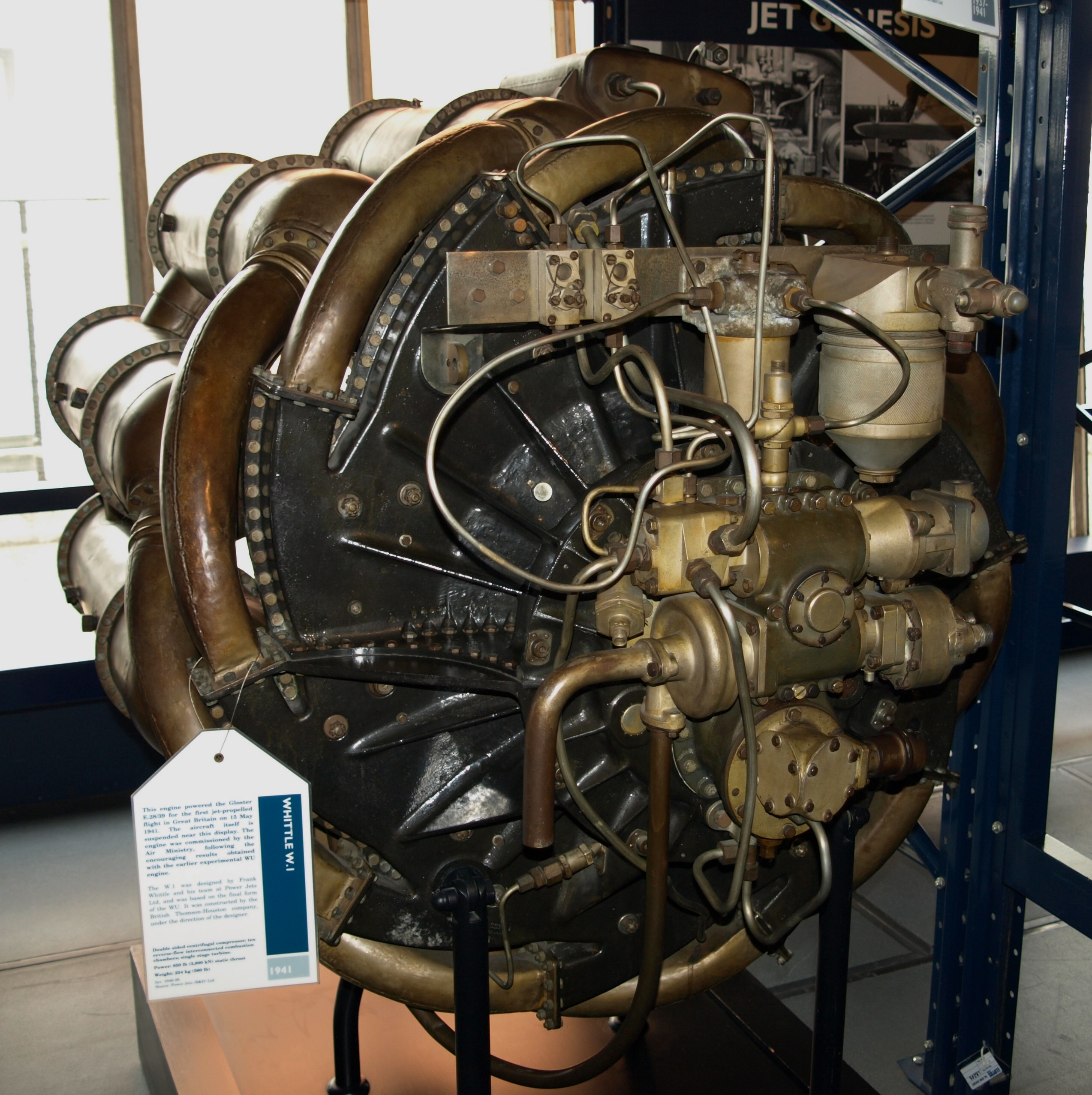 Power Jets W.1 turbojet engine at the Science Museum, London. This was the first British jet engine to fly.